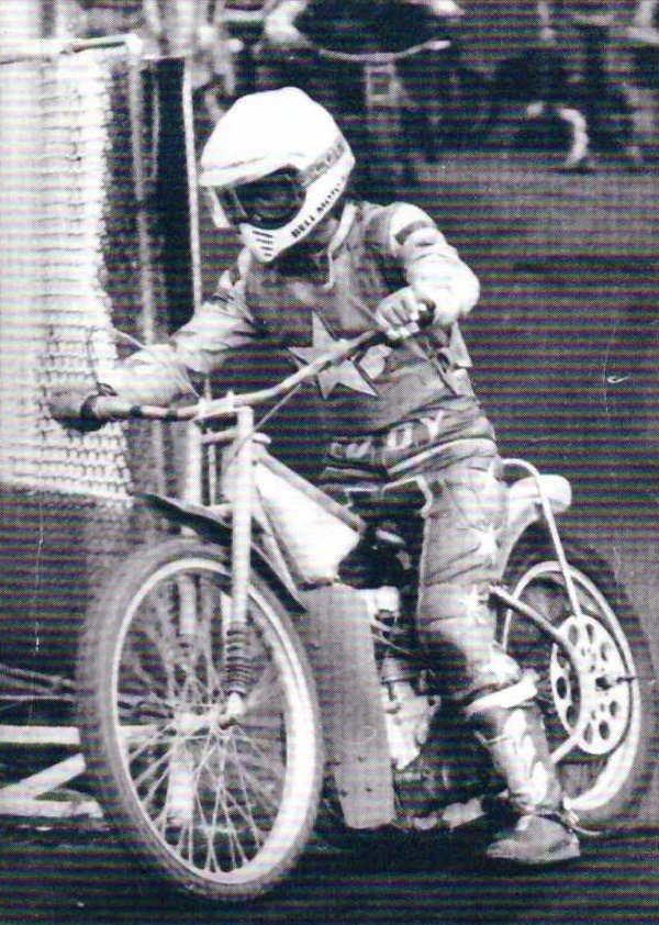 Edward Jancarz representing of Wimbledon Dons.